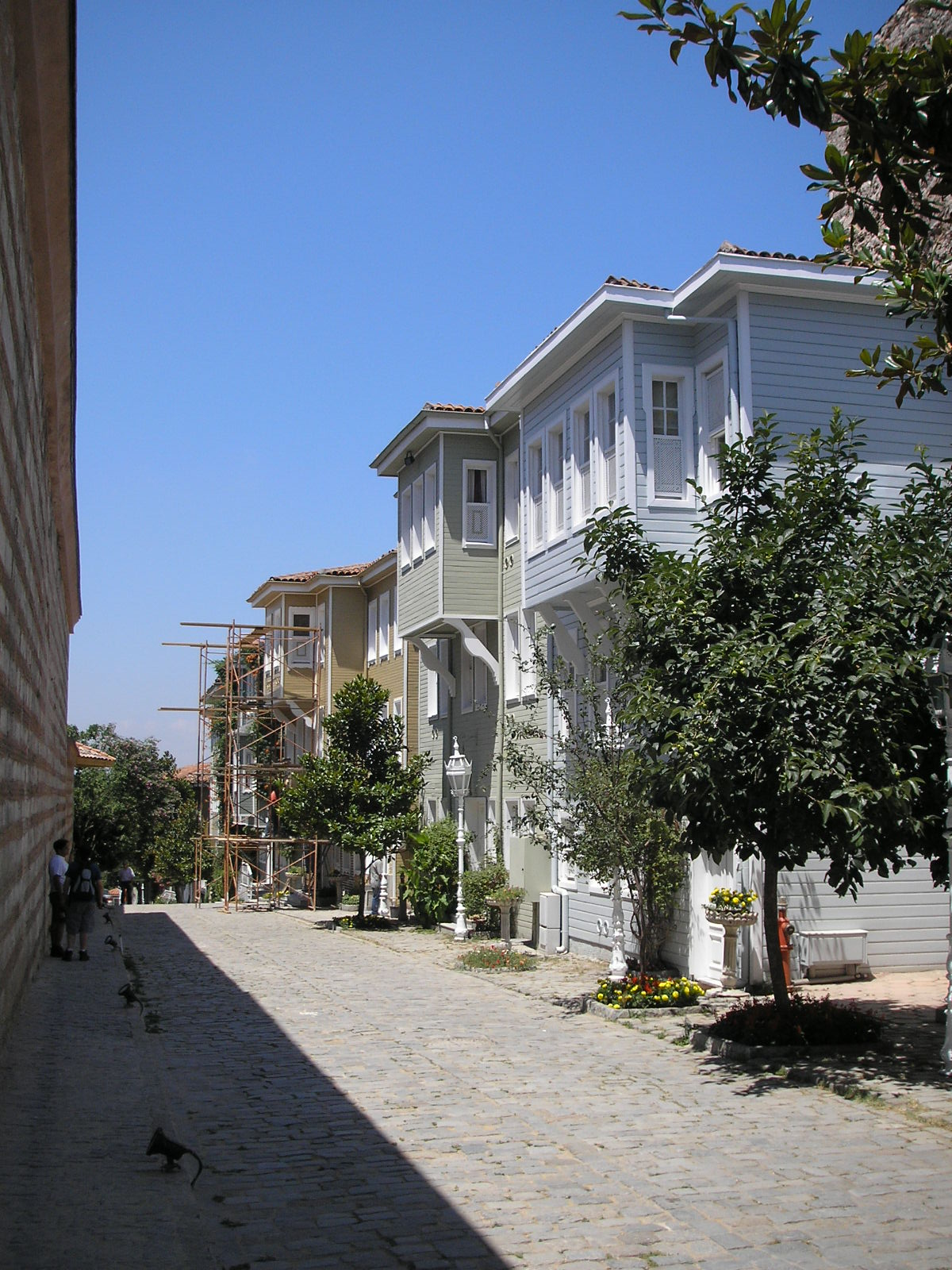 The Soğukçeşme Sokağı is a small street in-between the Hagia Sophia and Topkapi Palace. The street is full of Ottoman-era wooden mansions that have been renovated by the Automobile Club of Turkey into luxury hotels.